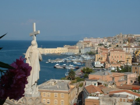 Historic port of Gaeta (Gaeta S. Erasmo), visible from the church of St. Francis. I took the photo myself on 19th July, 2003.